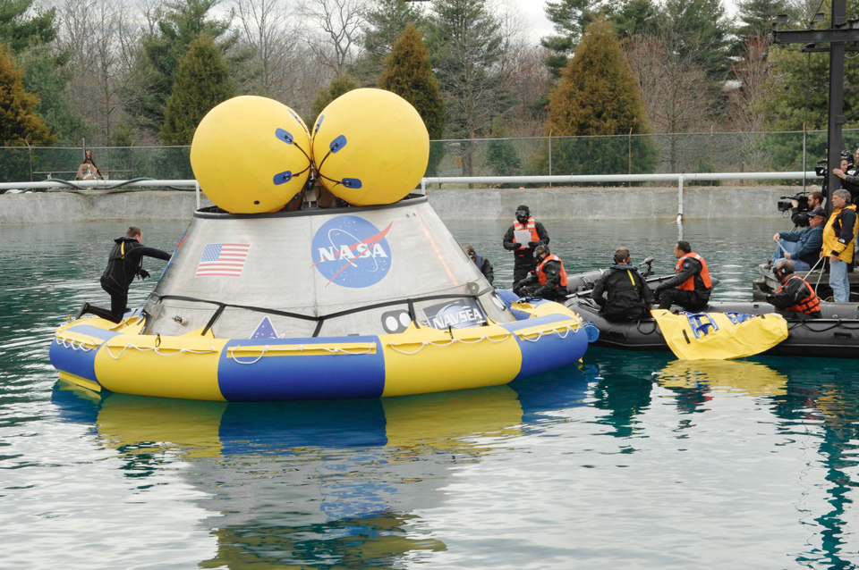 NASA and Department of Defense personnel familiarize themselves with a Navy-built, 18,000-pound Orion mock-up in a test pool at the Naval Surface Warfare Center's Carderock Division in West Bethesda, Md. Ocean testing will begin April 6 off the coast of NASA's Kennedy Space Center in Florida. The goal of the operation, dubbed the Post-landing Orion Recovery Test, or PORT, is to determine what kind of motions the astronaut crew can expect after landing, as well as conditions outside for the recovery team. The experience will help NASA design landing recovery operations including equipment, ship and crew necessities.